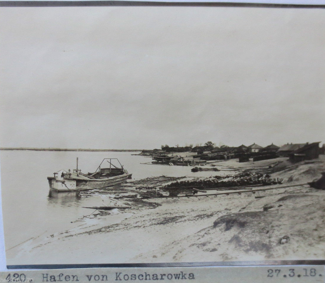 Photo of Ukraine from an album of an unknown German soldier taken during World War I.